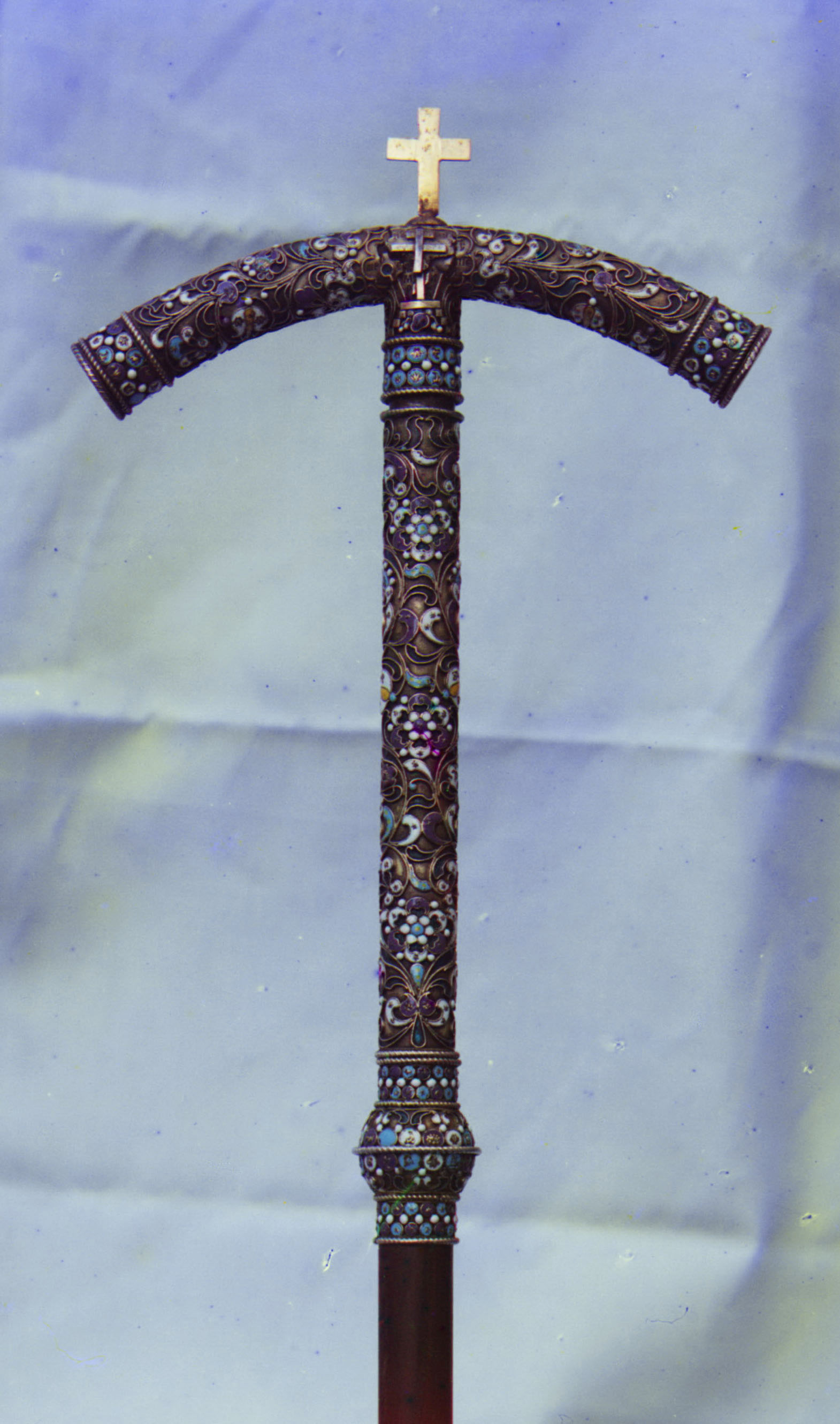 Crozier of Saint Dimitry of Rostov the Miracle Worker. Museum inventory number 788. In the Rostov museum. Rostov Velikiy